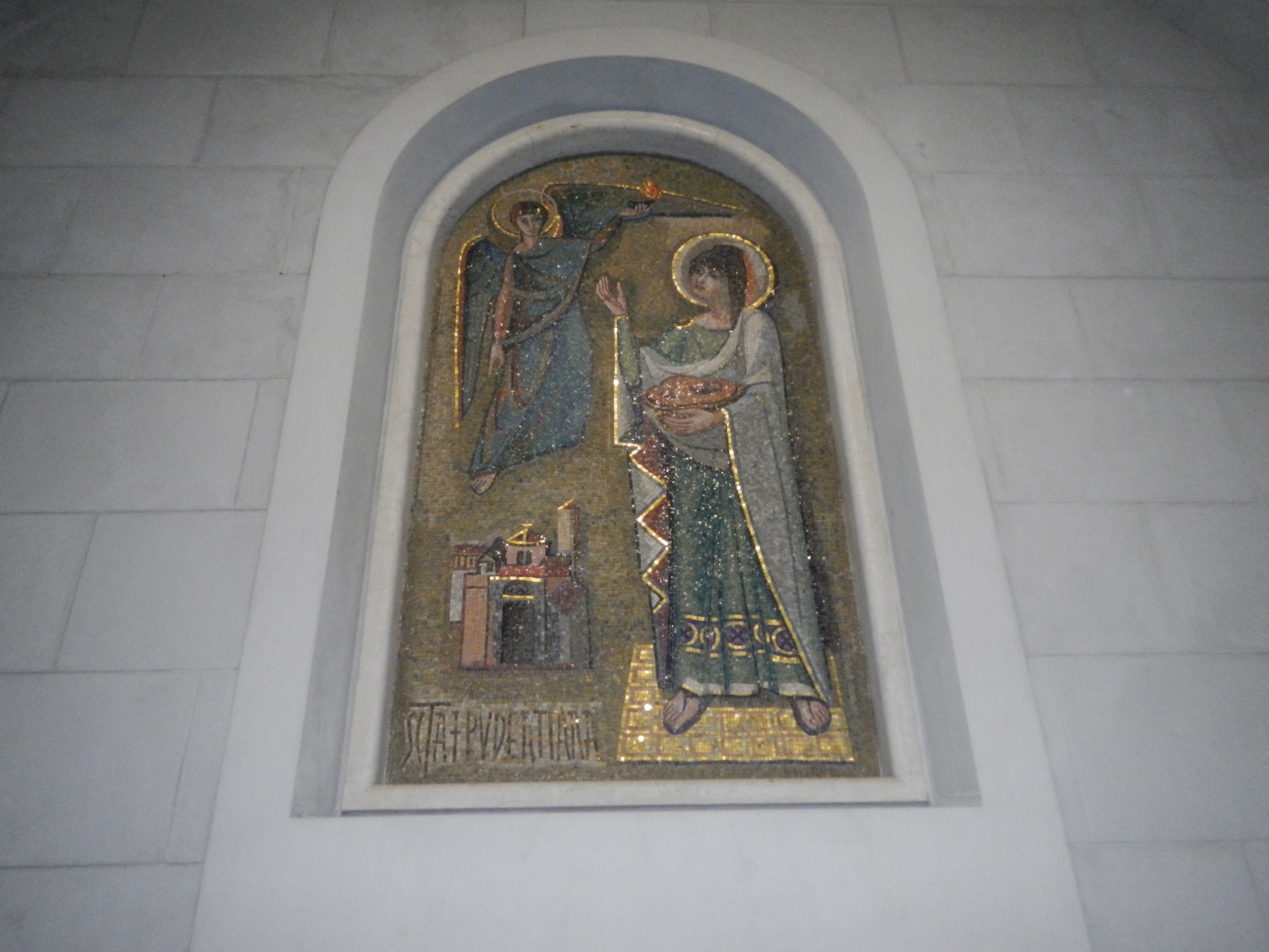 Intramuros, Landmarks include the Manila Cathedral Our Lady of the Philippines Titular Patroness of the Cistercian Trappist Abbey in Jordan, Guimaras, feast day on August 31, a replica of the Original commissioned on May 12, 2004 by the "Pilgrim" blessed by Cardinal Gaudencio Rosales on May 9, 2011, in Santa Potenciana Chapel; Plaza de Roma, Intramuros King Charles IV of Spain monument, Intramuros along Genral Luna Real de Palacio Street corner A. Soriano, Jr. Avenue (formerly Aduana) corner Arzobizpo Street; Intramuros Fire Station, Bureau of Fire Protection, Plaza de Roma, 1824 bronze statue of Carlos IV of Spain, 1886 Fountain; Main facade-Clock Tower-Belfry; (Note: Judge Florentino Floro, the owner, to repeat, Donor Florentino Floro of all these photos hereby donate gratuitously, freely and unconditionally all these photos to and for Wikimedia Commons, exclusively, for public use of the public domain, and again without any condition whatsoever).